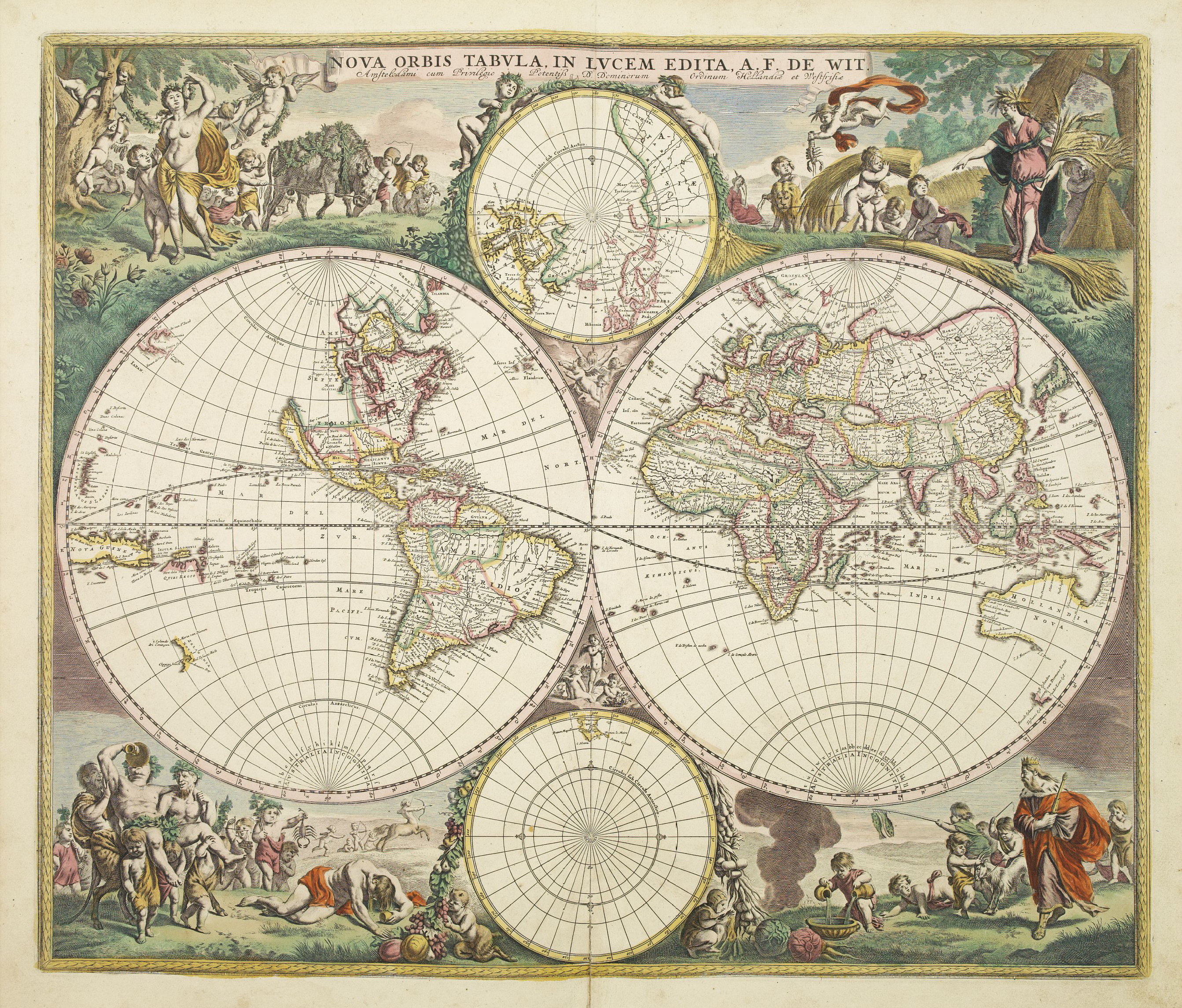 Nova Orbis Tabula in Lucem edita, A. F. de Wit published in Amsterdam 1680 47.9 x 56.2